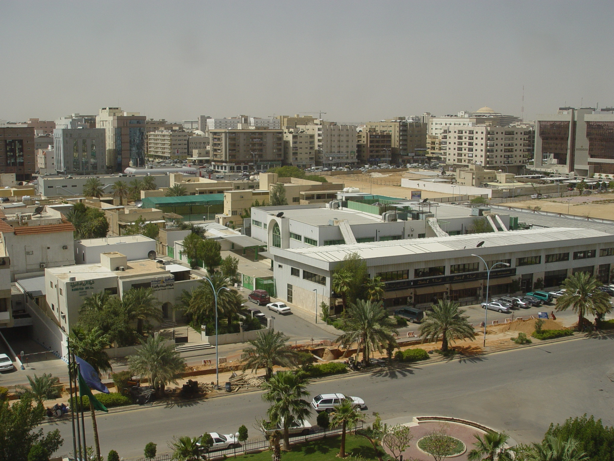 Riyadh's View